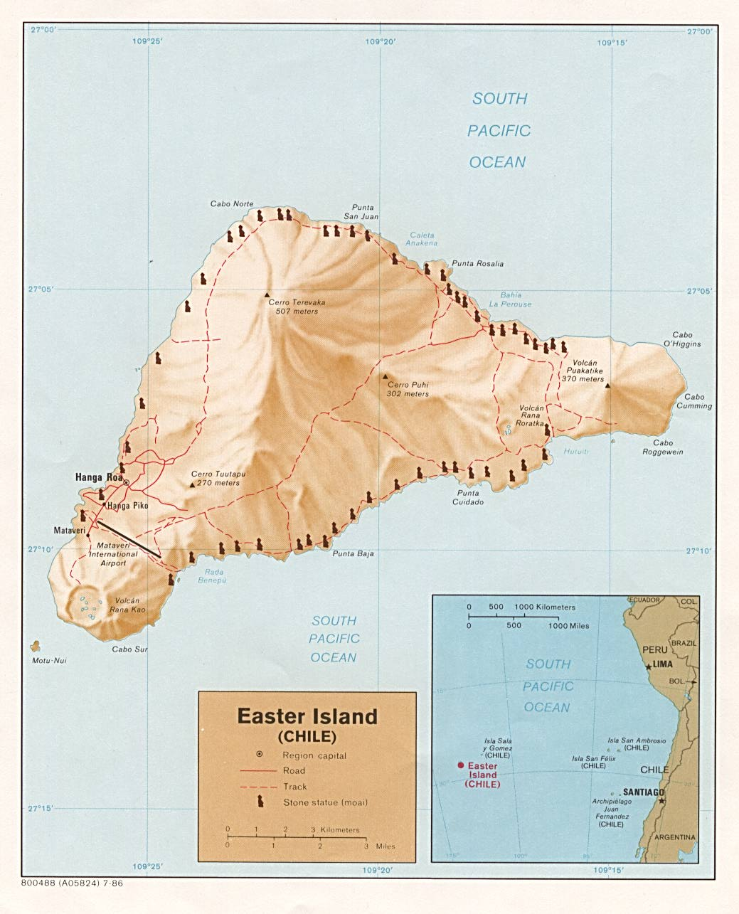 Map of Easter Island